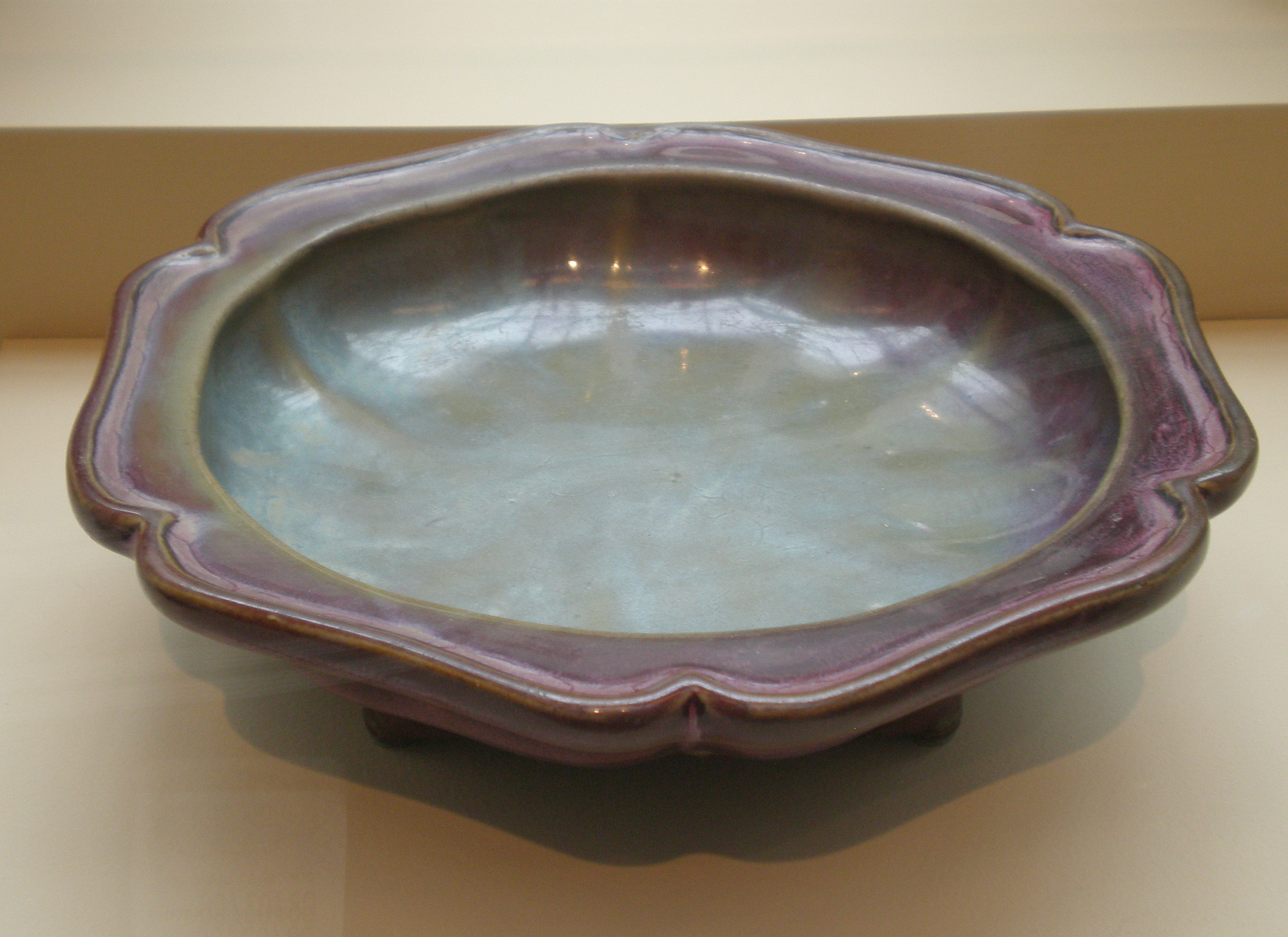 Bulb bowl with scalloped rim, made of stoneware, from the Chinese Northern Song Dynasty (960-1127) on display at the Asian Art Museum in San Francisco, California. B60P93